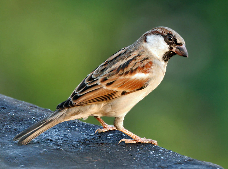 A male House Sparrow (Passer domesticus) in Kolkata, West Bengal, India.